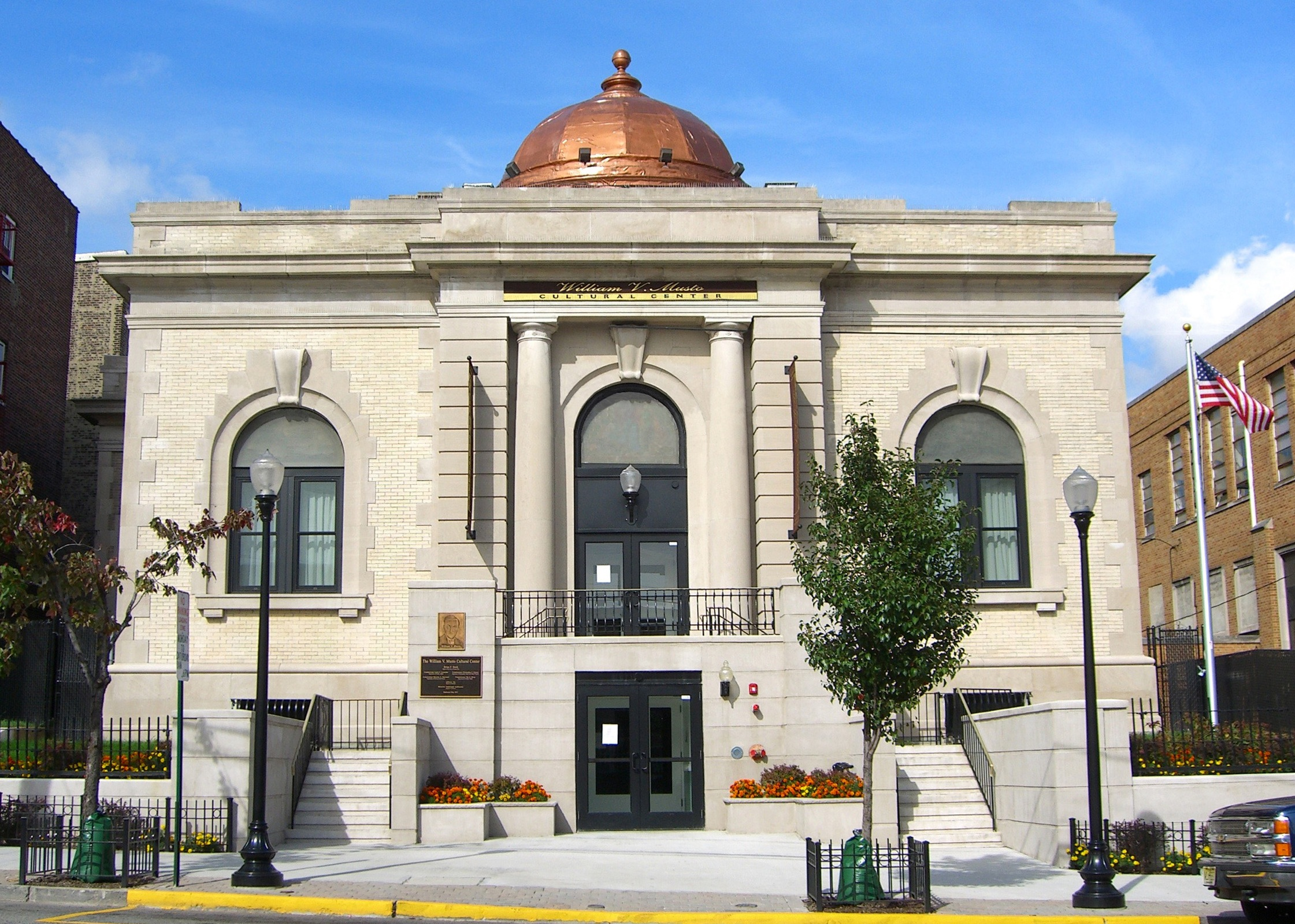 The William V. Musto Cultural Center in Union City, New Jersey. This photo was created by Luigi Novi. It is not in the public domain, and use of this file outside of the licensing terms is a copyright violation.